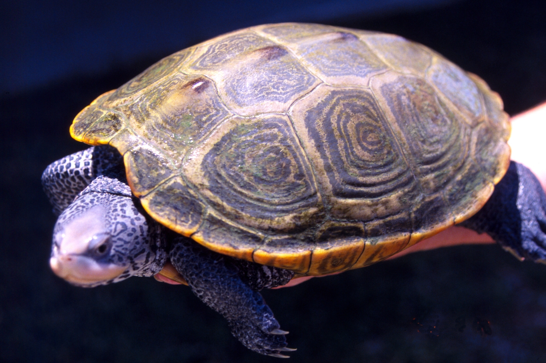 Adult female Diamondback turtle being balanced on a NOAA employee's arm.